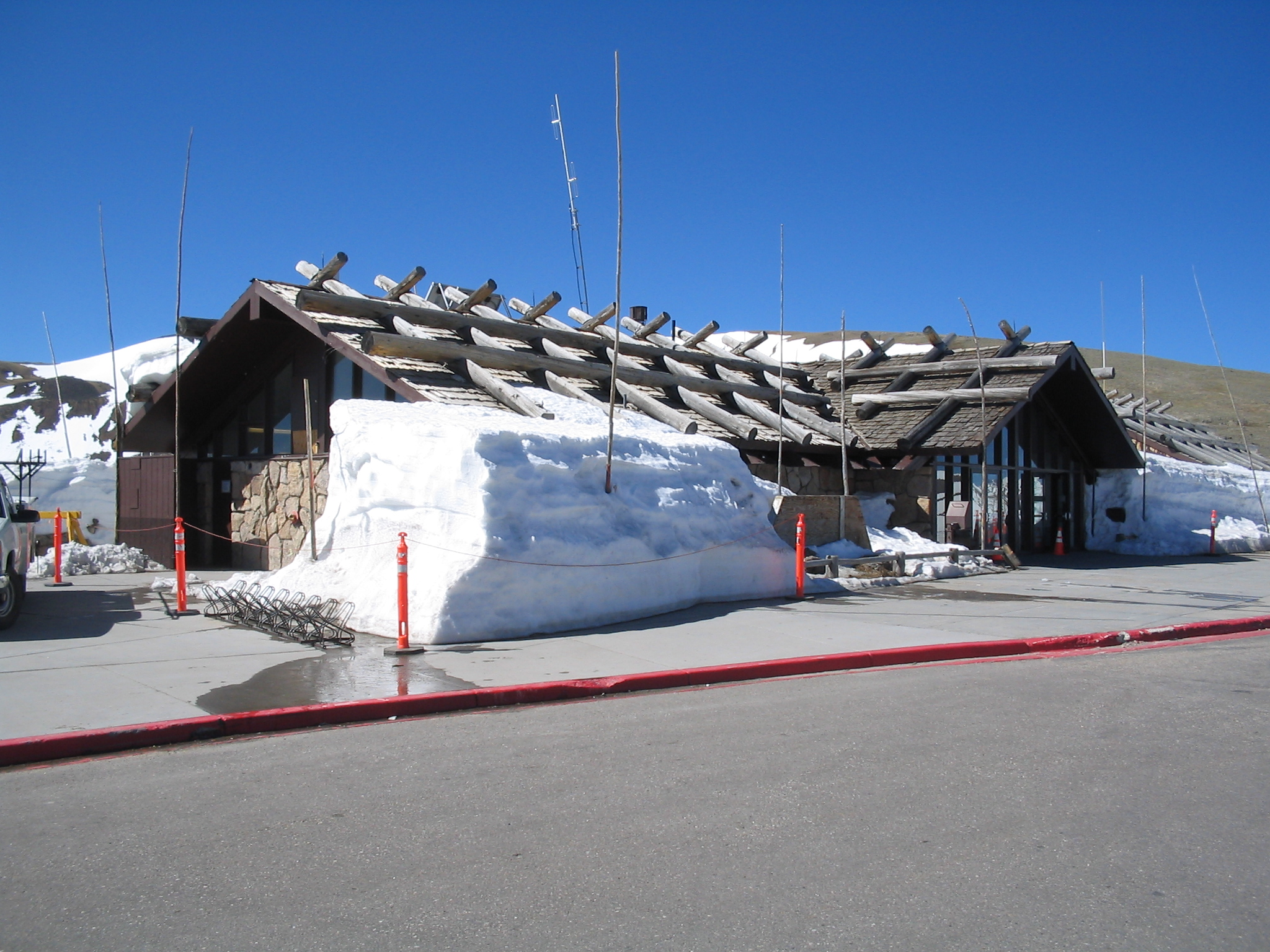 The Alpine Visitor Center in Rocky Mountain National Park. David Benbennick took this photo on May 27, 2005 at 9:48 AM. The wooden poles around the building are, I suppose, to help find it in the spring, when they begin plowing to try to get the park open.